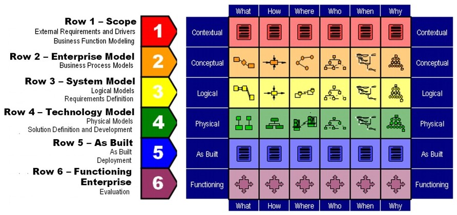 Illustration of a simplified Zachman Framework, with the explaination of the Rows